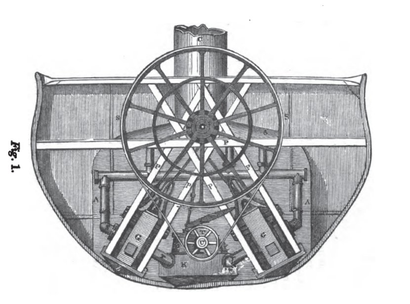 Transverse section through the hull of SS Great Britain, showing arrangement of the large gearwheel linked by chains to the smaller propeller shaft gearwheel below, two of the 60 degree inclined cylinders from one of the engines behind, and further behind still, the boiler.